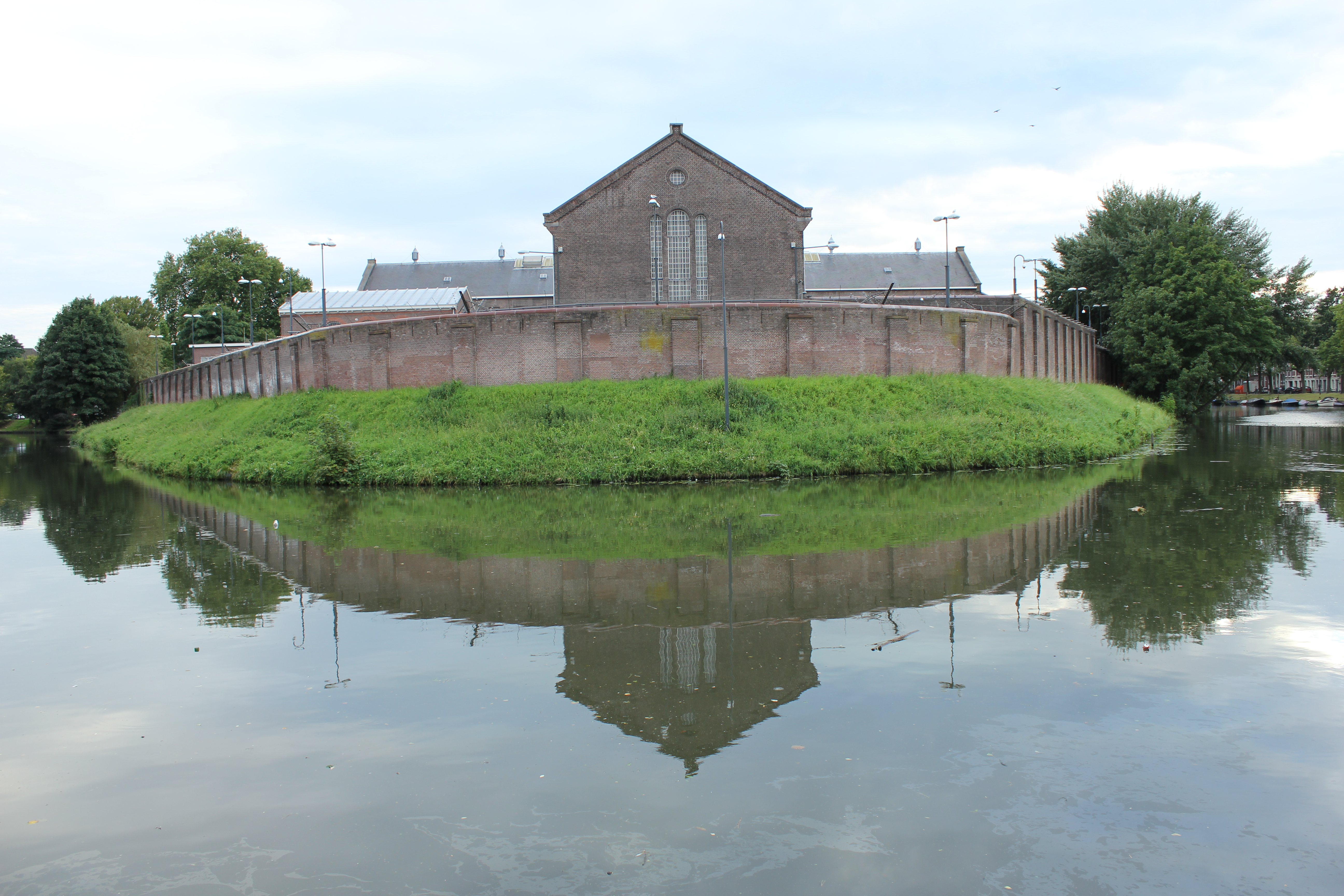 Rijksmonument Wolvenburg (ca. 1580, old earthwork used in the city defence) in Utrecht which is also the place of a prison (ca. 1855, rijksmonument), the oldest still functioning prison in the Netherlands